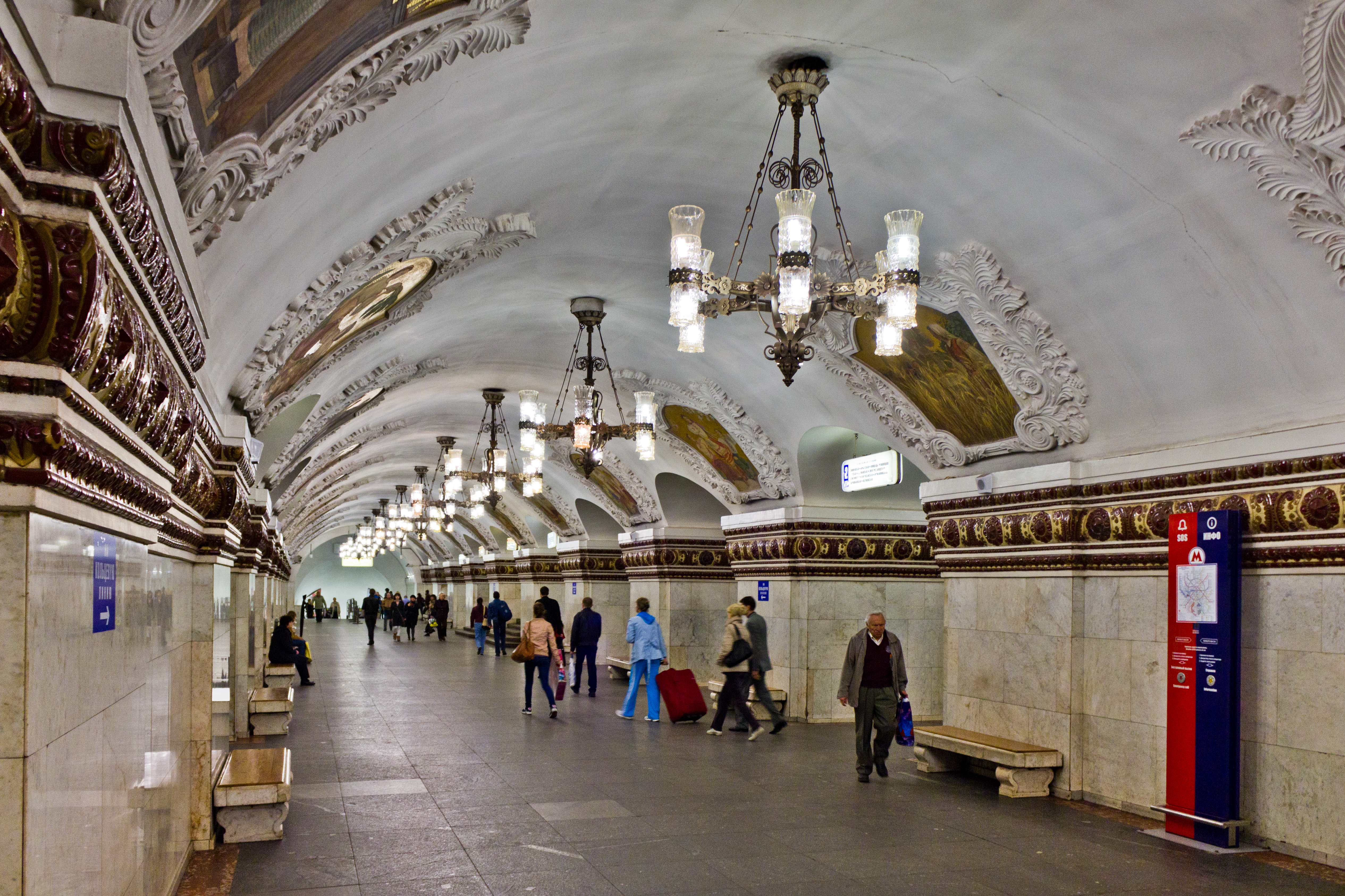 Kievskaya (Arbatsko-Pokrovskaya Line) Moscow Metro station.